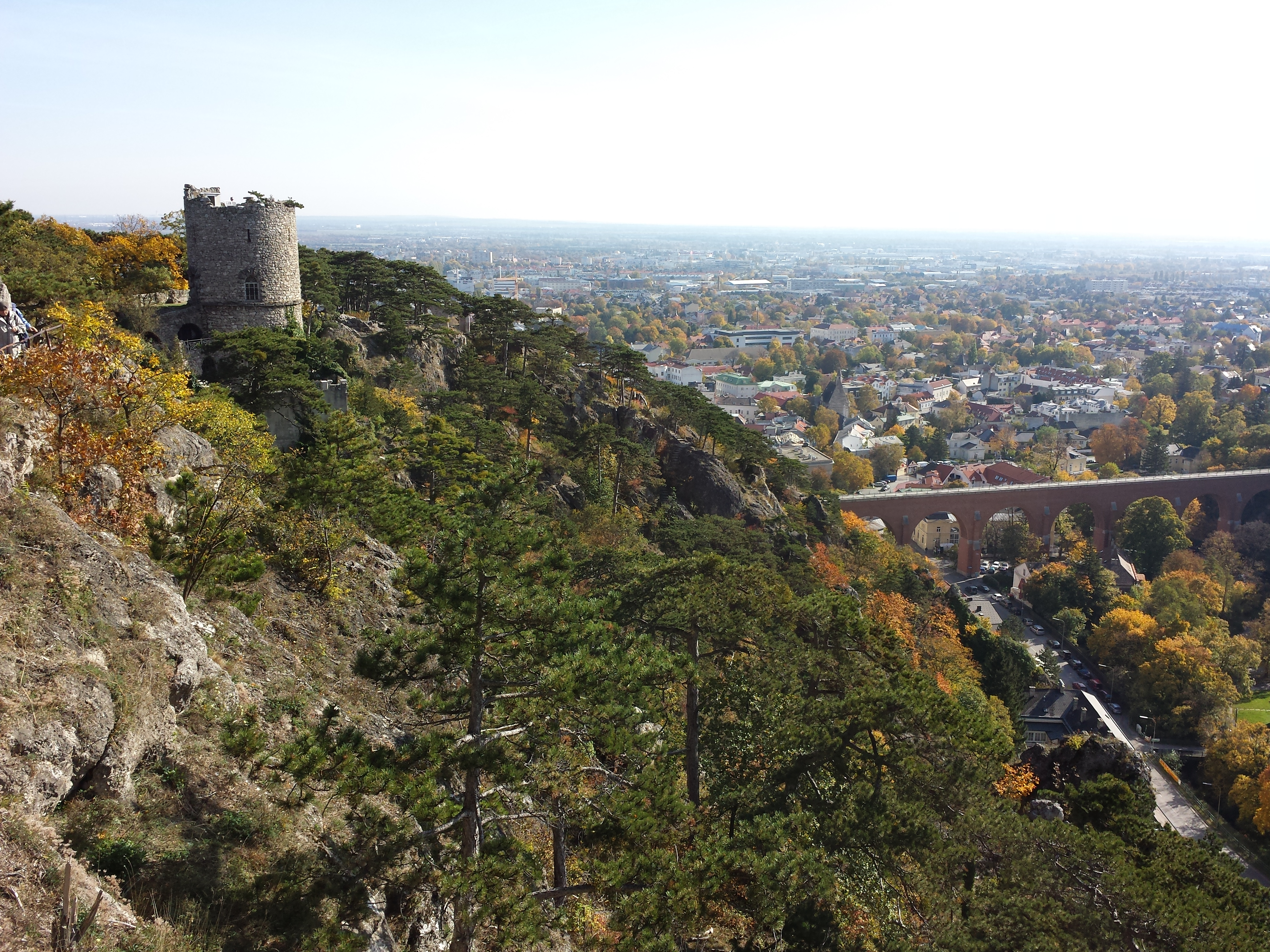 View towards Mödling, Schwarzer Turm in foreground